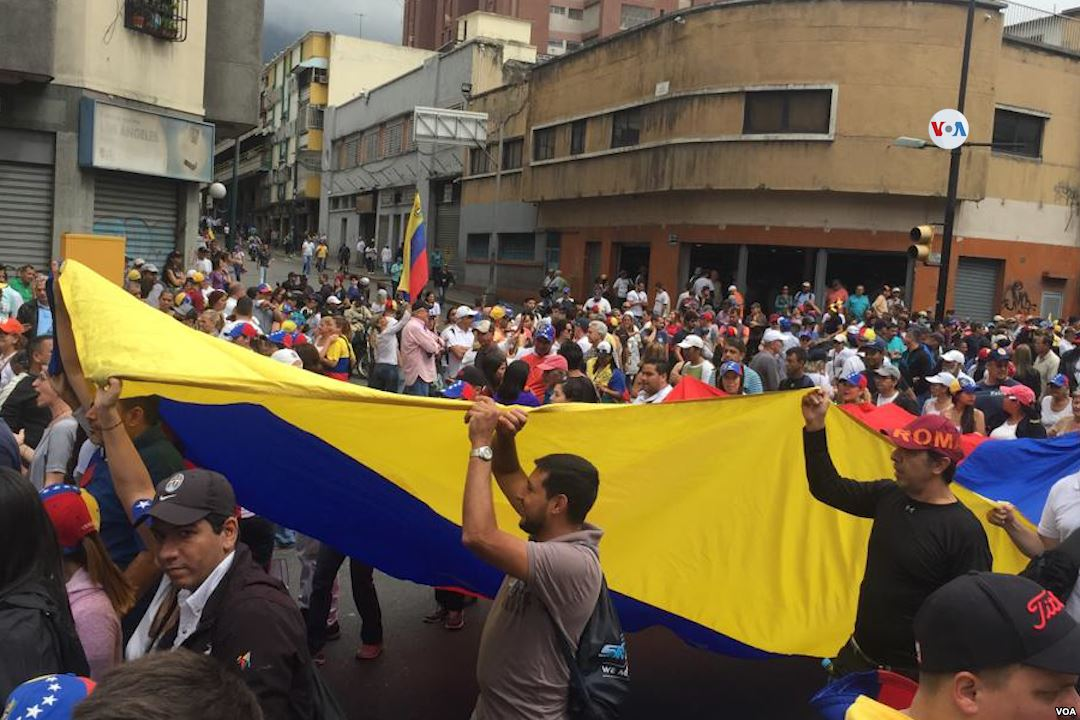 Thousands of people crowded in different parts of the city in Caracas, Venezuela to participate in the march called by the National Assembly against the presidency of Nicolás Maduro.